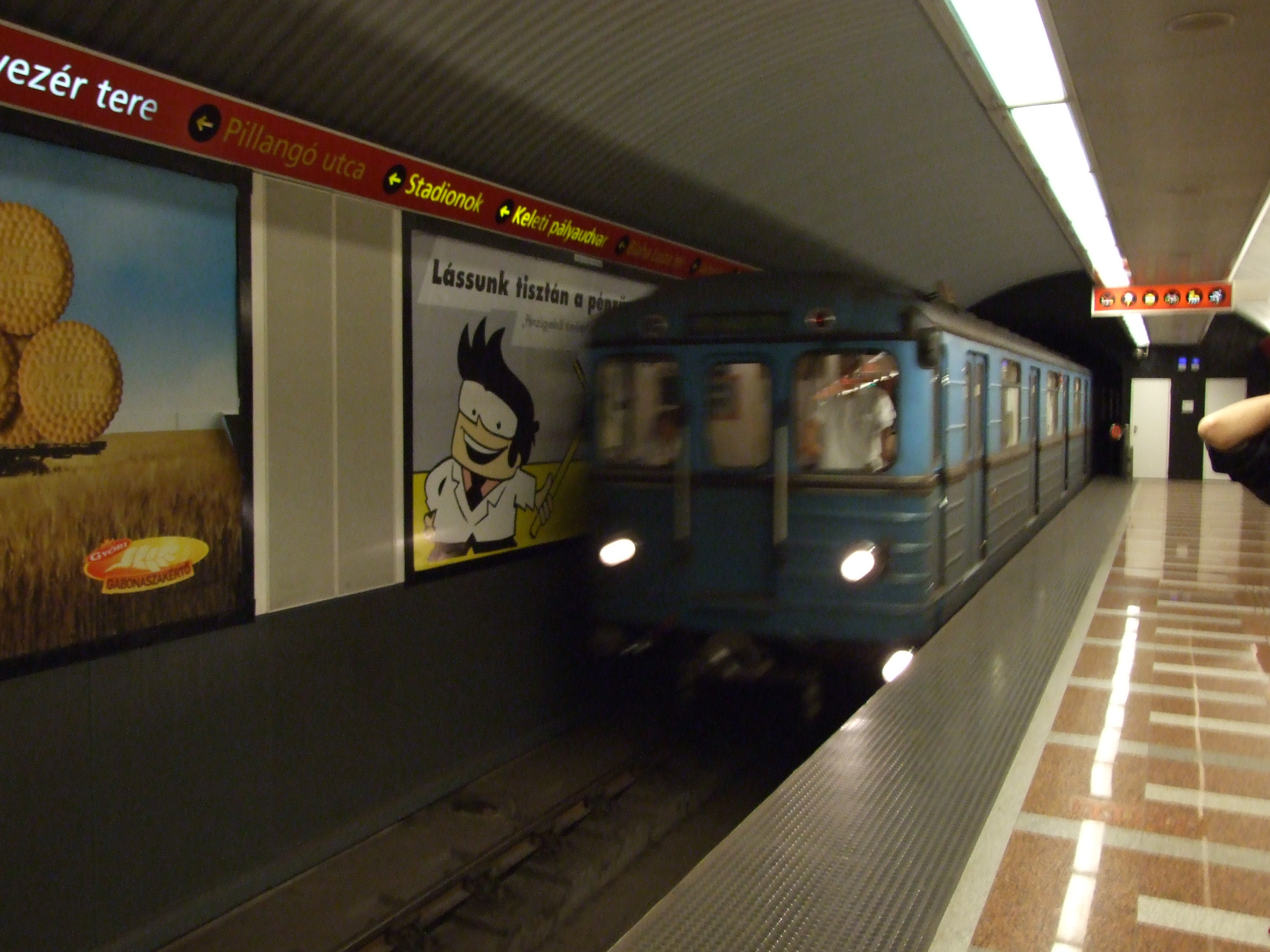 Train aprroaching Moszkva tér station in Budapest, HU